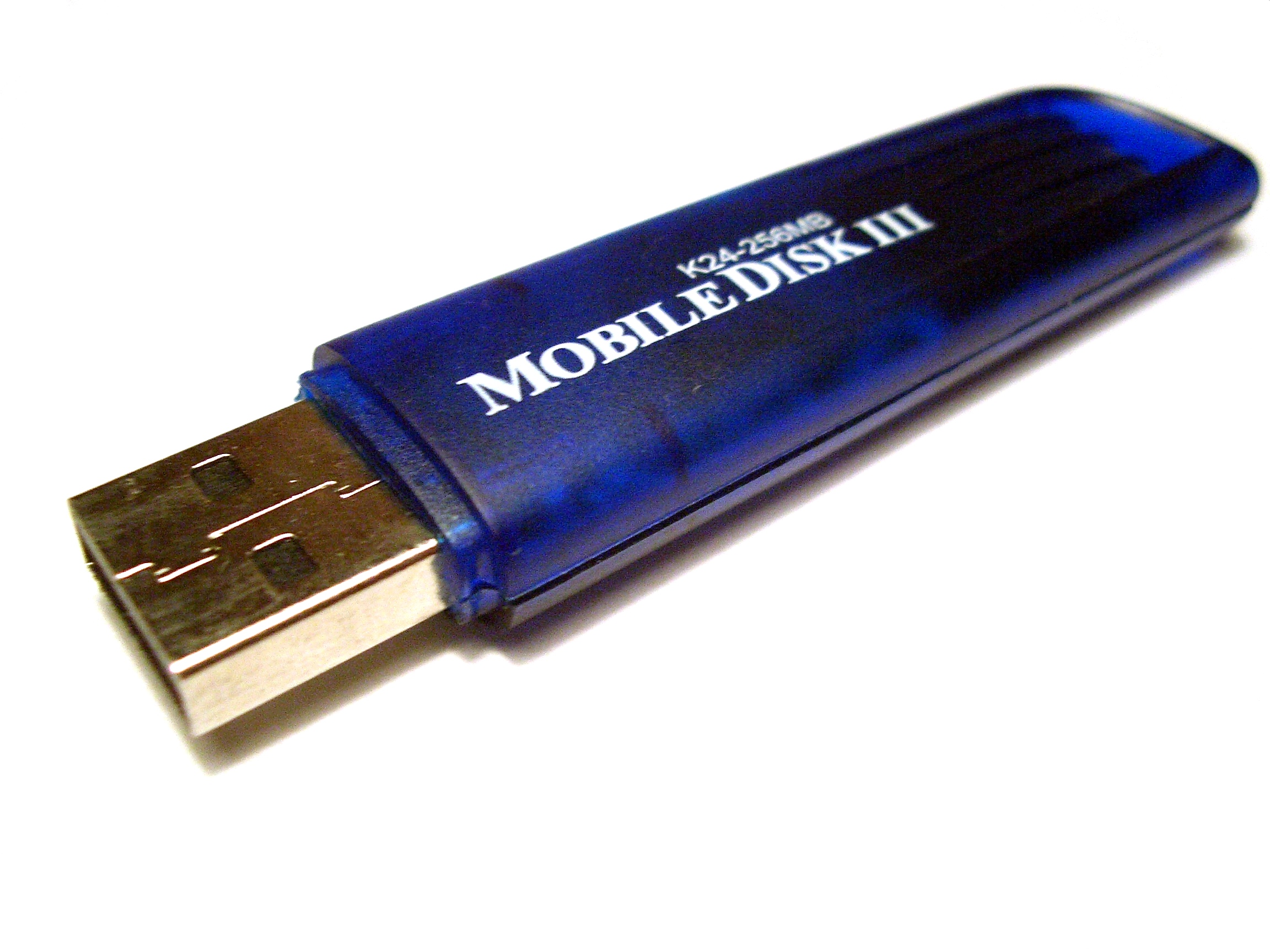 Photo of my USB Flash pen drive, a TwinMOS Mobile Disk III K24-256MB model.